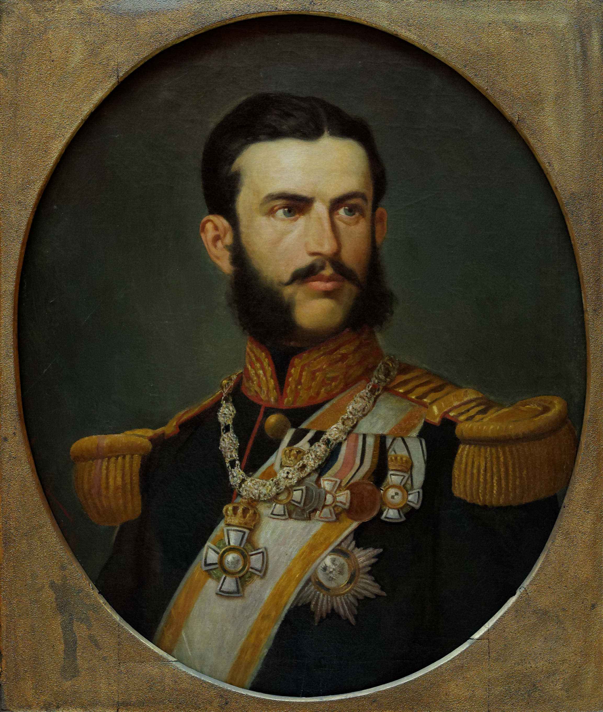 Prince Carol I